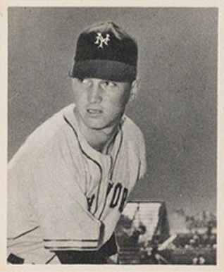 1948 Bowman baseball card of Sheldon Jones of the New York Giants #34. PD-not-renewed.